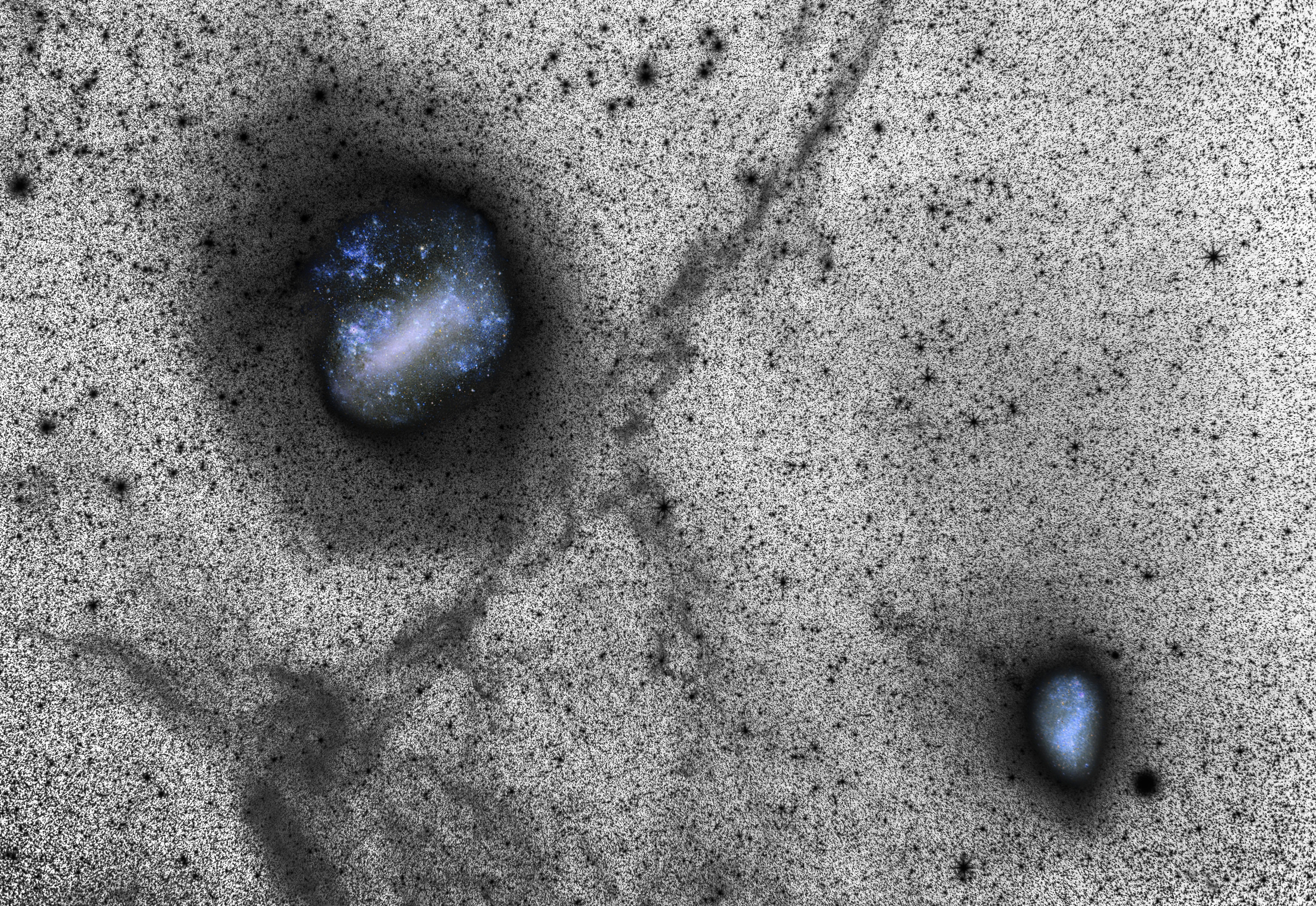 Each of the thousands of spots in this new image represents a distant star, and the glittering blue holes reveal glimpses of our neighbouring galaxies, the Large and Small Magellanic Clouds. Although this image looks as if it was made on a large scale telescope it was in fact captured from ESO’s La Silla Observatory using a portable setup consisting of a SBIG STL-11000M CCD camera and a Canon prime lens. It was presented in a scientific paper alongside state-of-the art simulations, in an exciting example of how a small camera, a fast lens, a long exposure time and one of the world’s best astronomical sites can reveal huge faint features better than even a big telescope. This deep image was captured using the LRGB method, and provides an insight into the actual process of creating spectacular astrophotography. Many challenges face those attempting to photograph the night sky, including interference from light sources other than the object being photographed, and capturing objects in sufficient depth. Trying to maximise the signal received from the target, whilst minimising input from other sources — known as noise — is a crucial aspect of astrophotography. The optimisation of the signal to noise ratio is far more easily achieved in black-and-white than in colour. Therefore a clever trick often employed to capture a high-quality image is the use of a luminance exposure, which produces richly detailed monochrome images like the one seen here. Colour details from images taken through colour filters can then be overlaid or inset, as the Magellanic Clouds have been here.